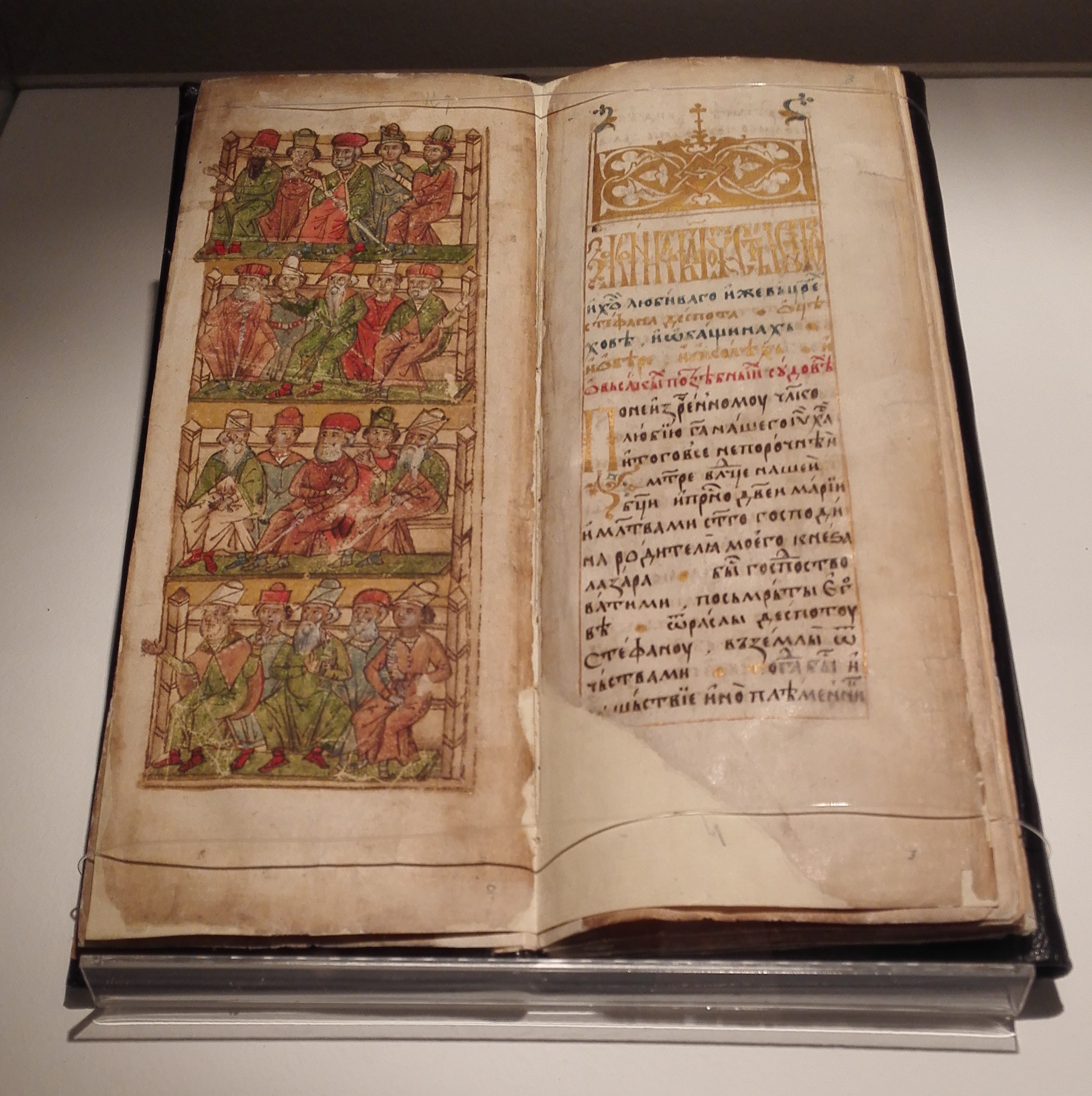 The mining code of Despotes Stefan Lazarević. Kratovo, ca. 1580. Belgrade, Archives SASA